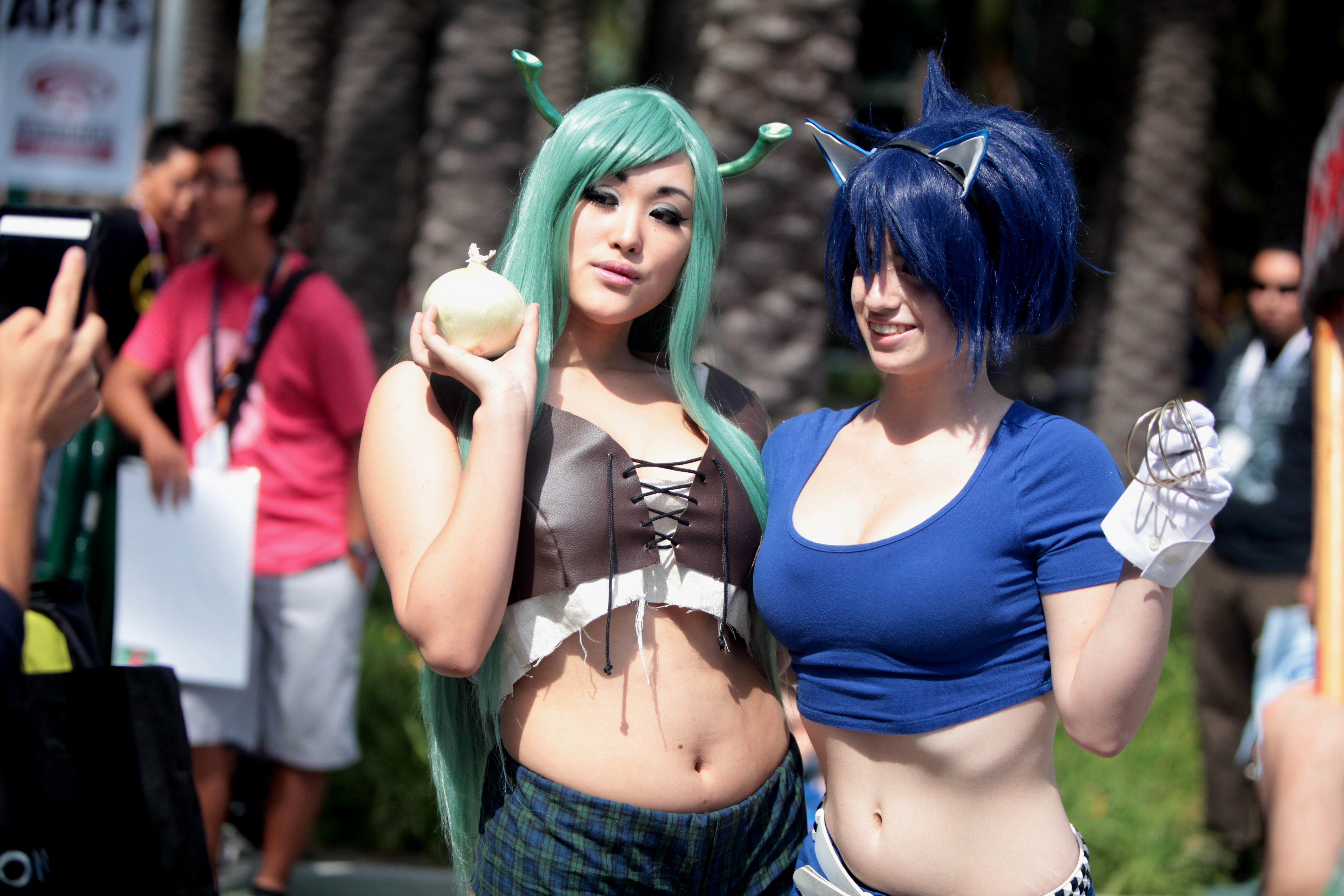 Fiona of Shrek and Sonic cosplayers at the 2015 Wondercon at the Anaheim Convention Center in Anaheim, California.